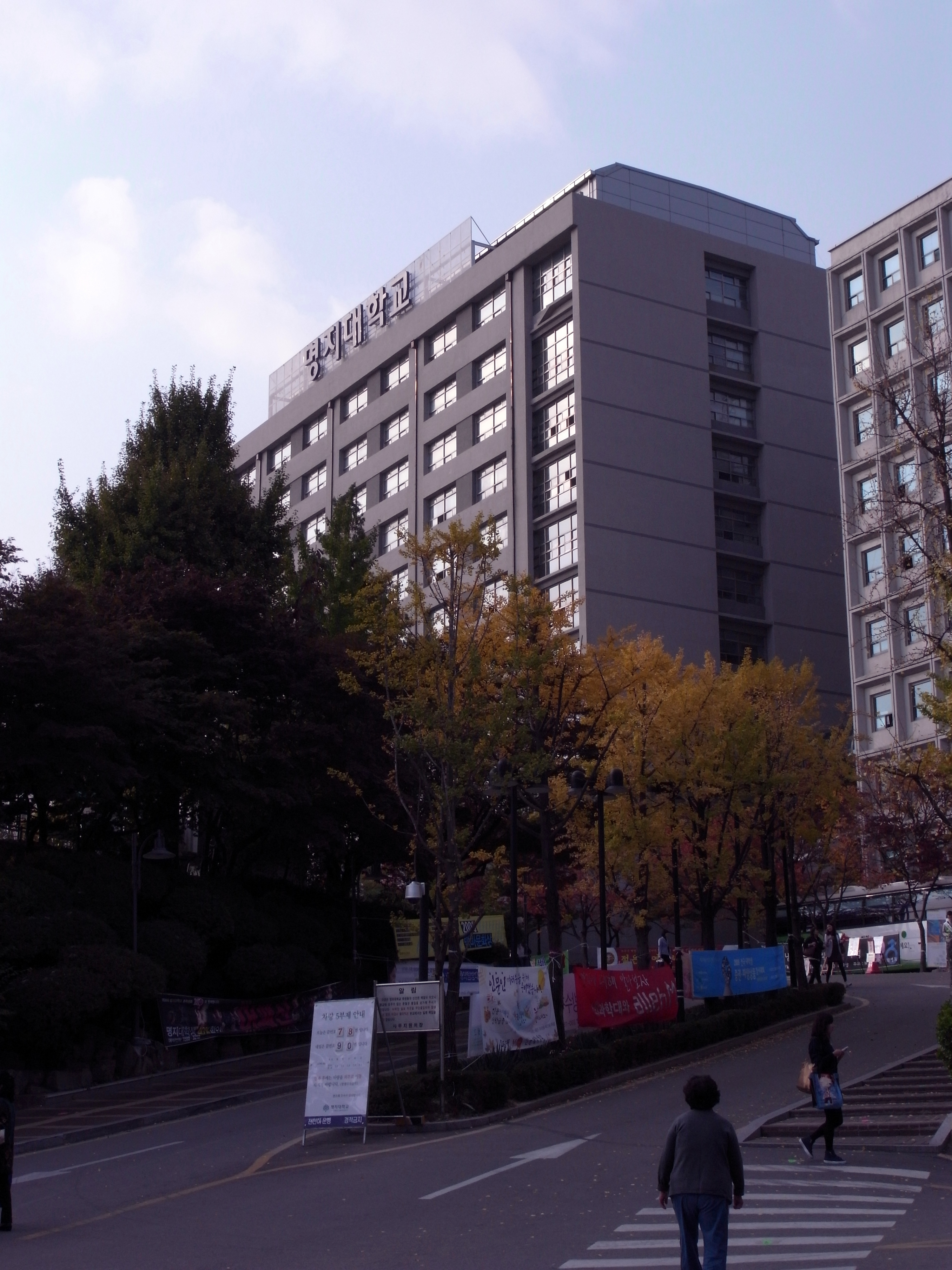 Myongji University in Seoul, Korea